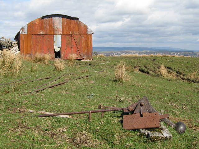 Points Old narrow gauge railway line on Duchal Moor. This was used in a bygone age for transporting people to shoot on the moor for grouse. This is the old train shed now used for farm storage. The extensive railway can still be found over the moor.